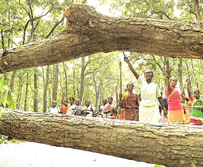 Roads were blocked at several places from Lalgarh to Medinipur or Jhargram towns to prevent police reinforcements.